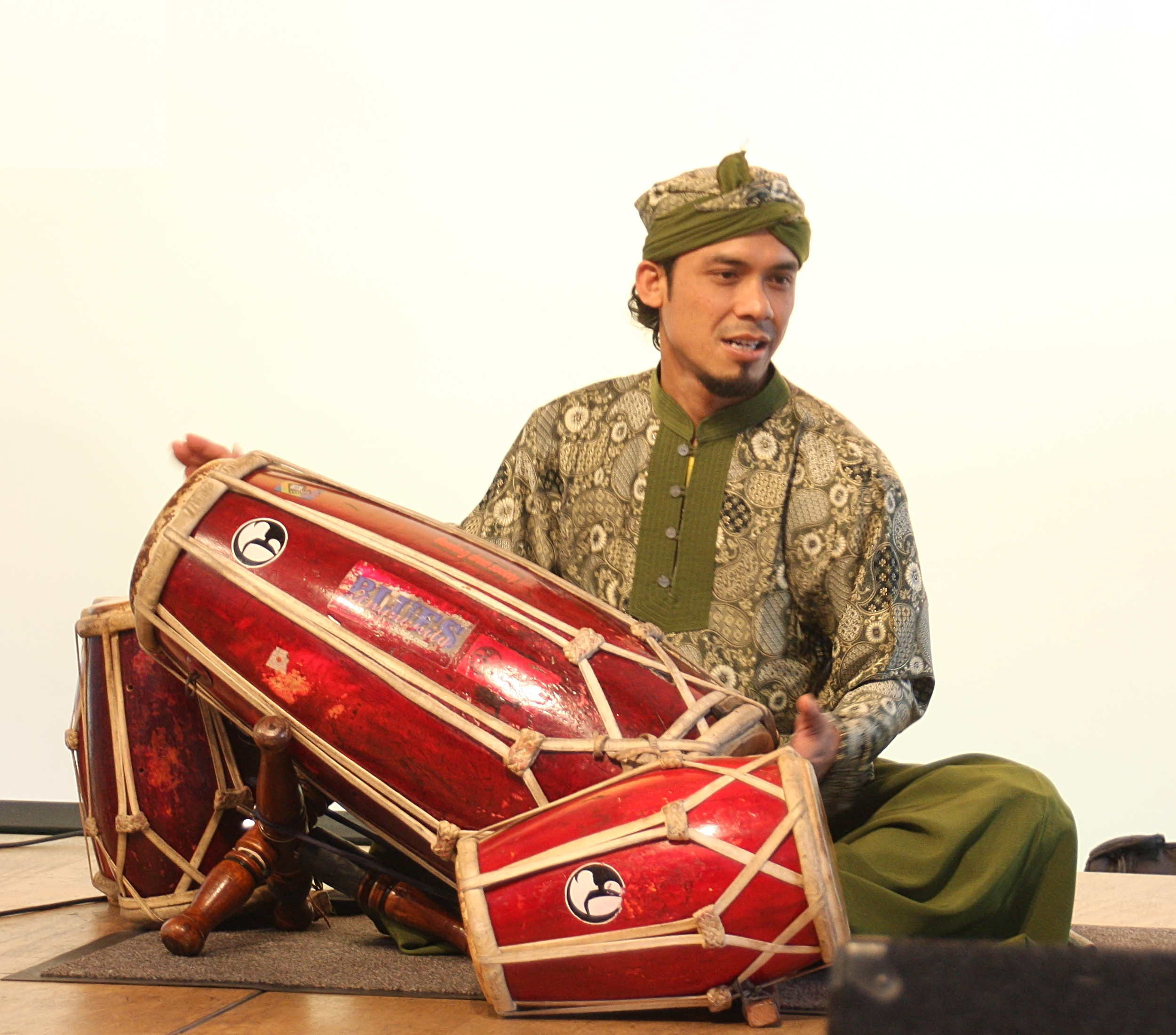 The SambaSunda quintett from Java, Indonesia, performs in Cologne